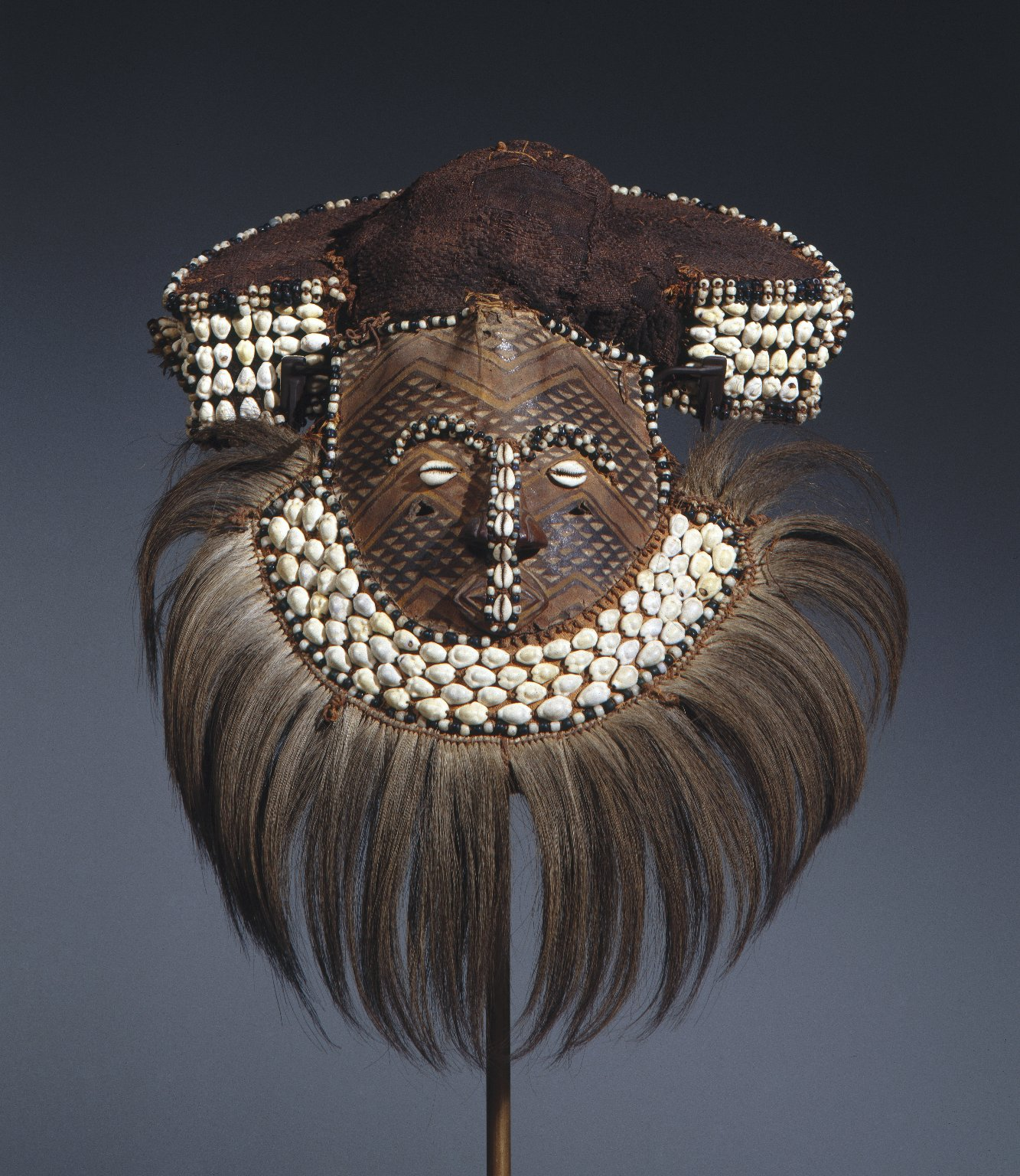 Mask of thin parchment, painted. Elaborately trimmed with shell and hair decoration. Shell eyes. The surface is highly decorative, composed of intricately painted geometric designs and geometrically arranged cowrie shells and beads. One feature, a long strip of beaded decoration extending from the bridge of the nose to the chin is present. Emphasis placed on 2 dimensional surface quality and elaborate polychromy. Condition: Headdress worn and torn.